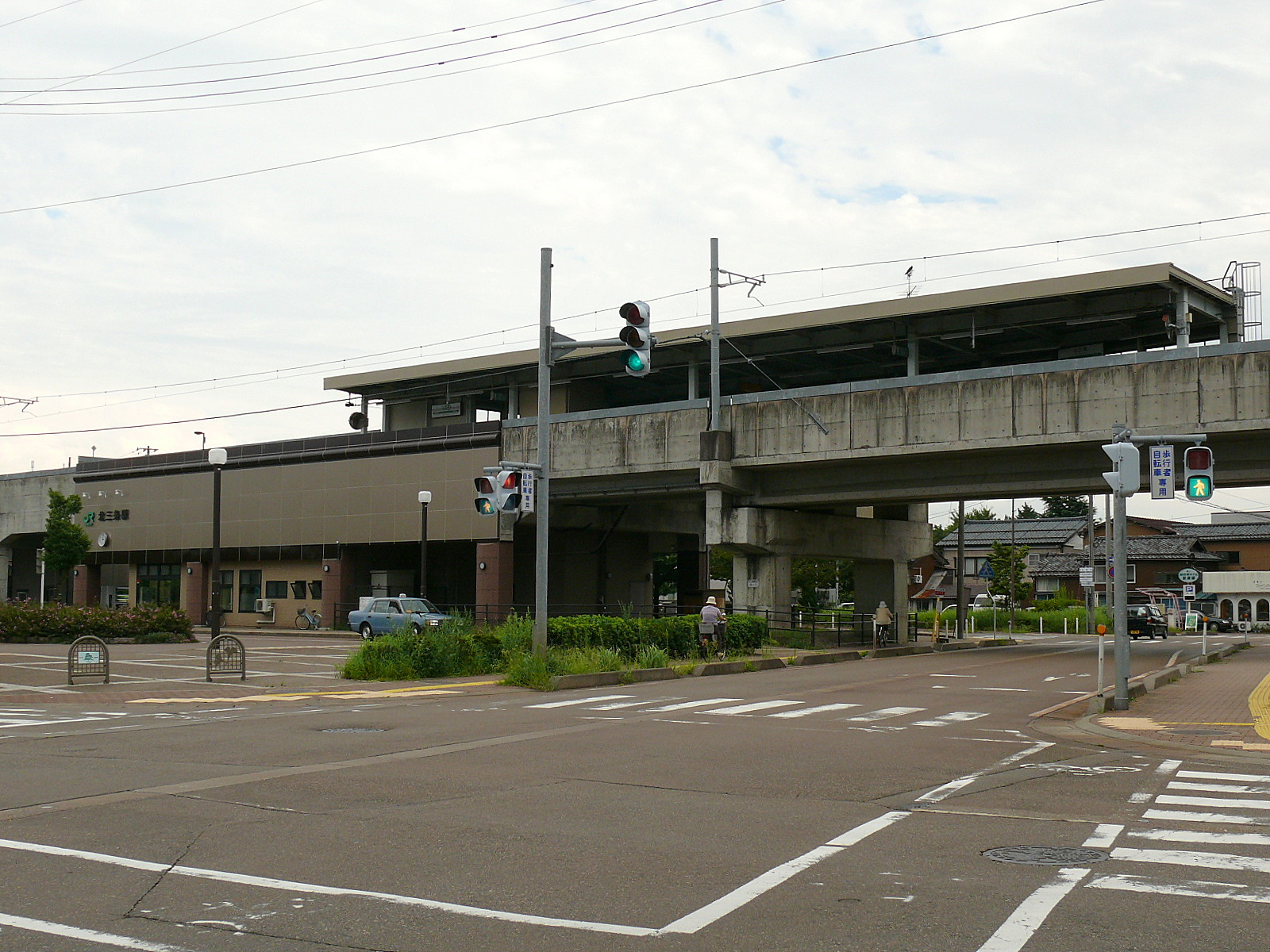 JR East Yahiko Line Kita-Sanjo Station(Niigata ,Japan.)